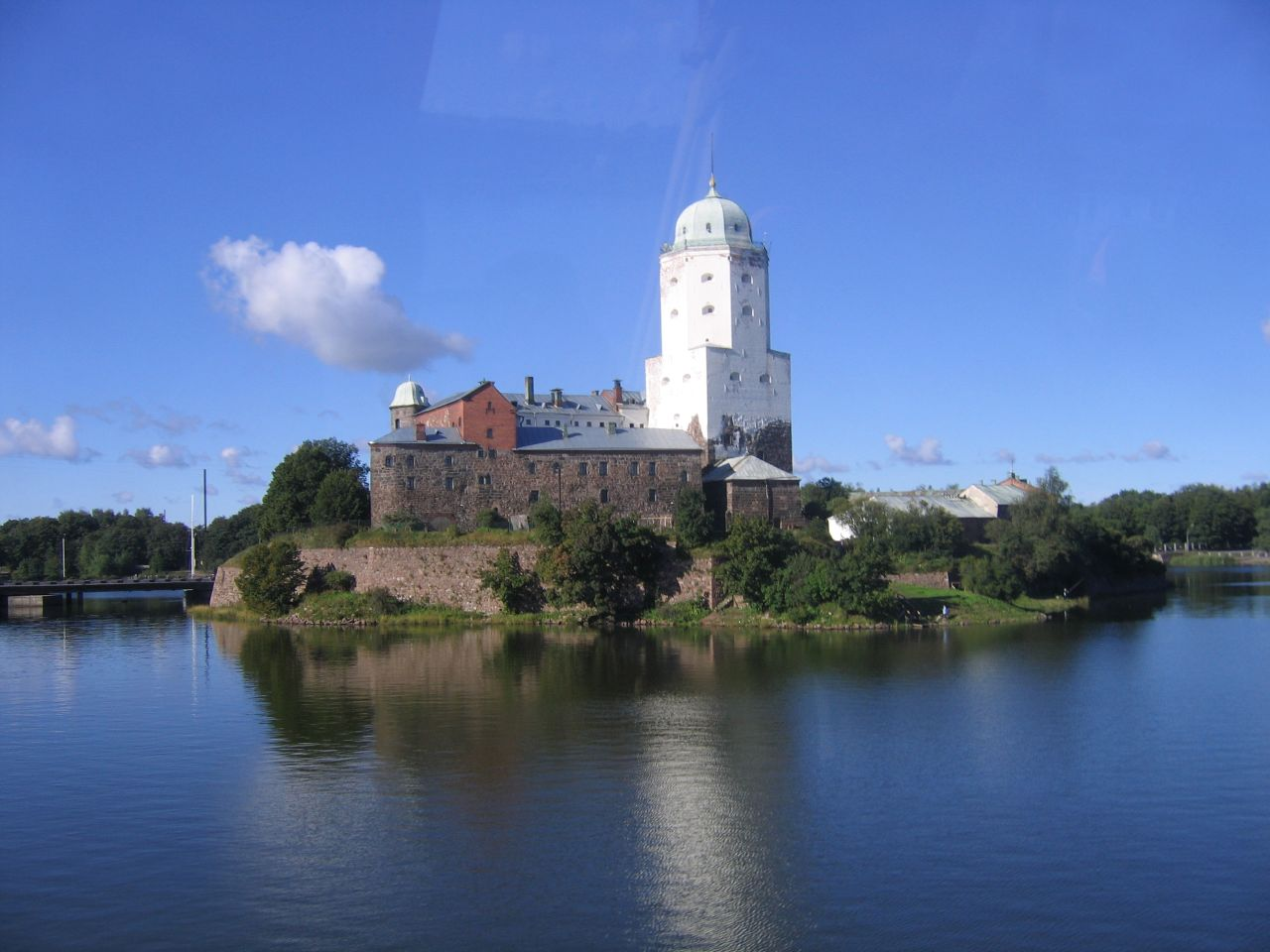 The Saimaa canal enters the Gulf of Finland at Vyborg.